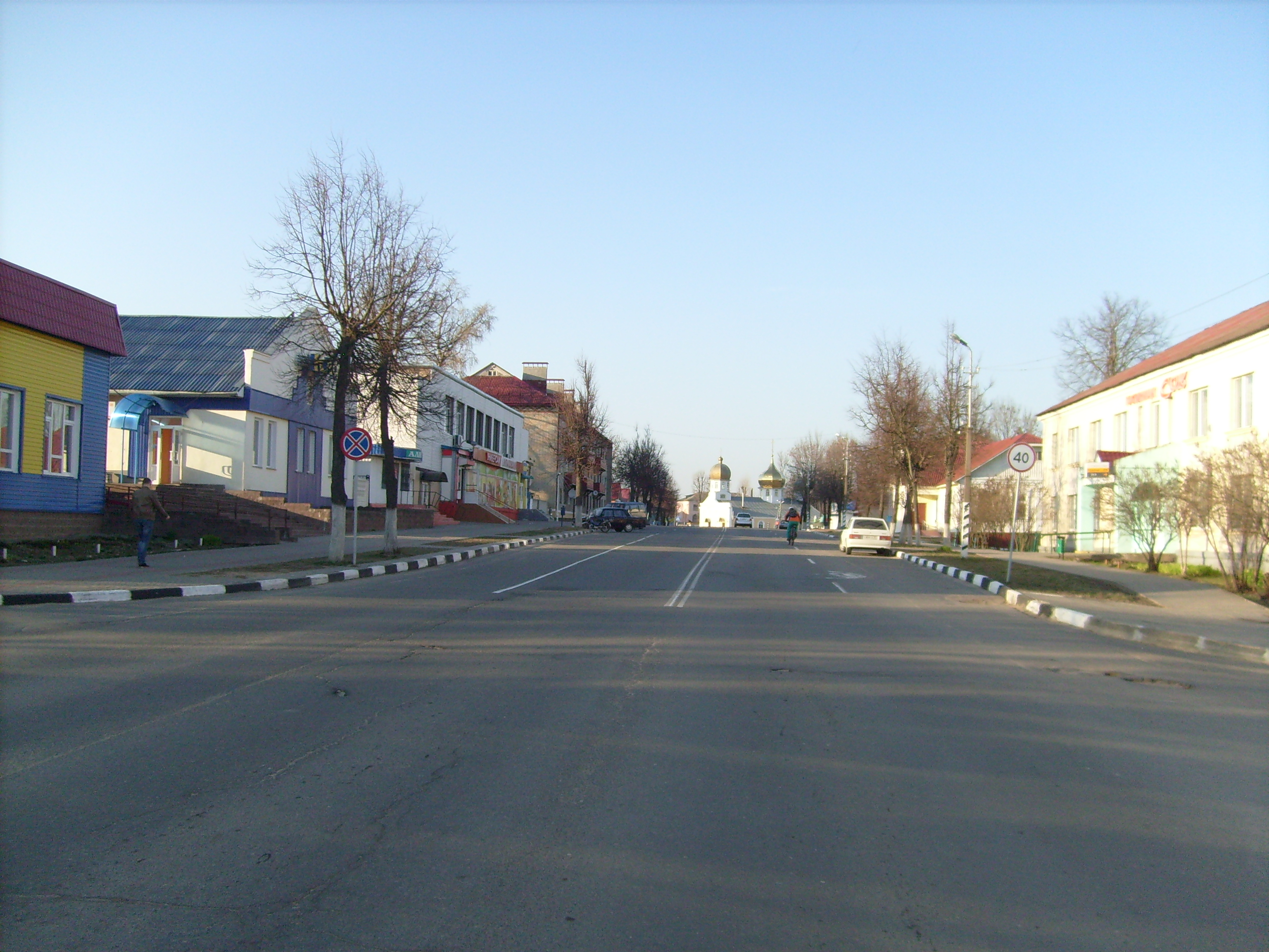 Lenin street in Krichev (Belarus)